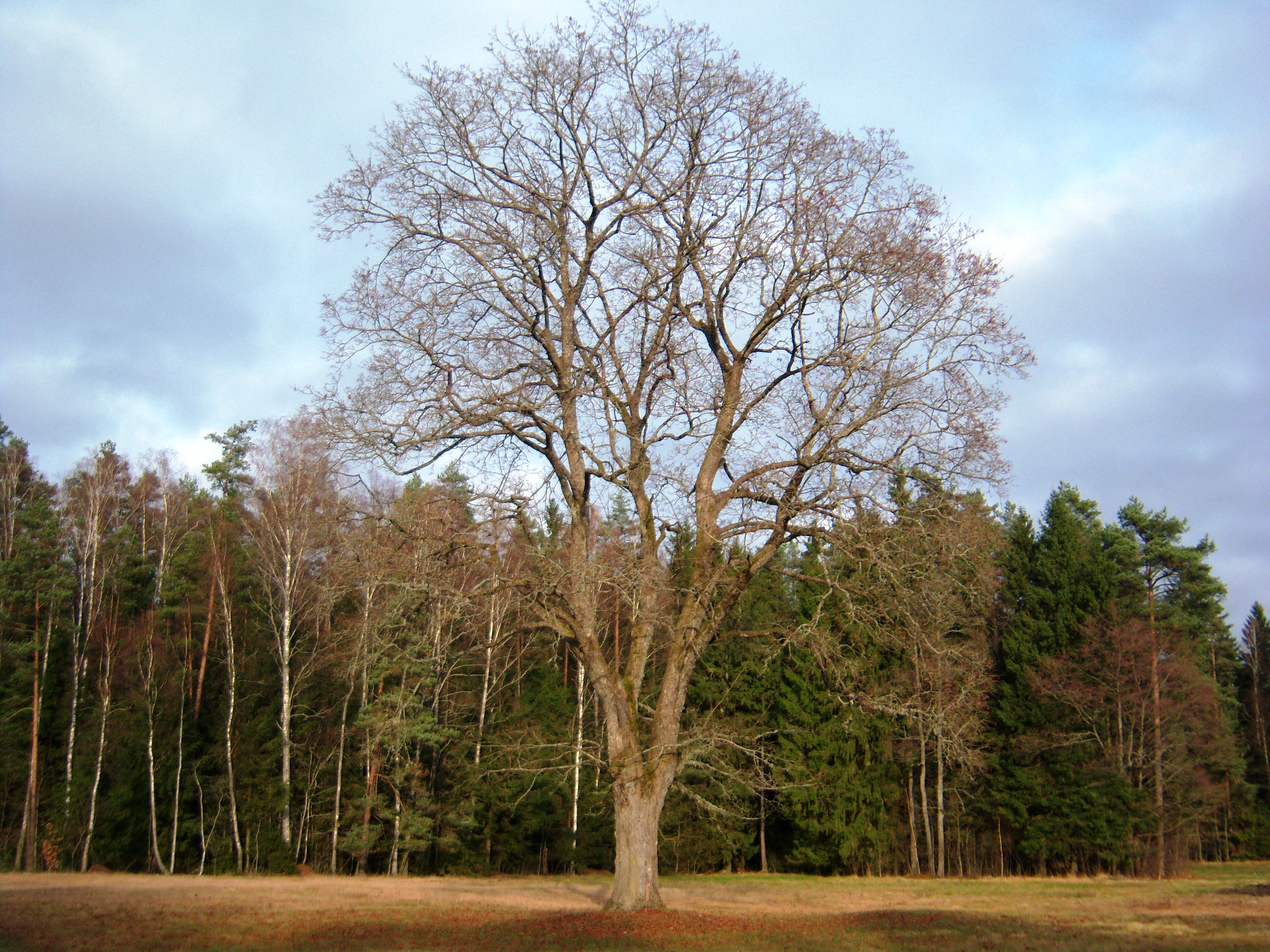 Maple tree in Vincentavas, Kaunas District, Lithuania